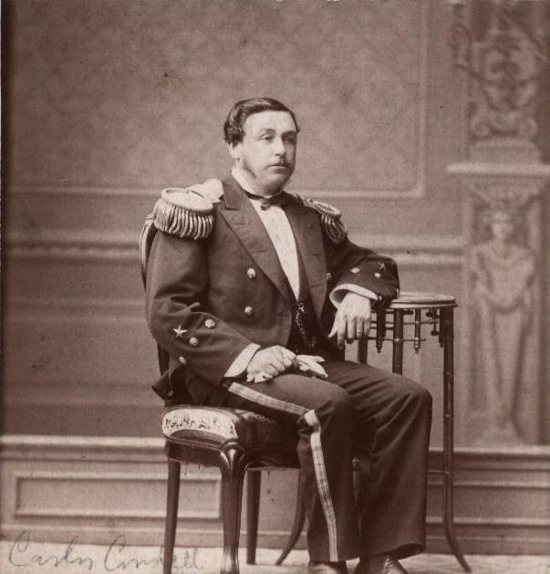 Chilean naval officer Carlos Condell